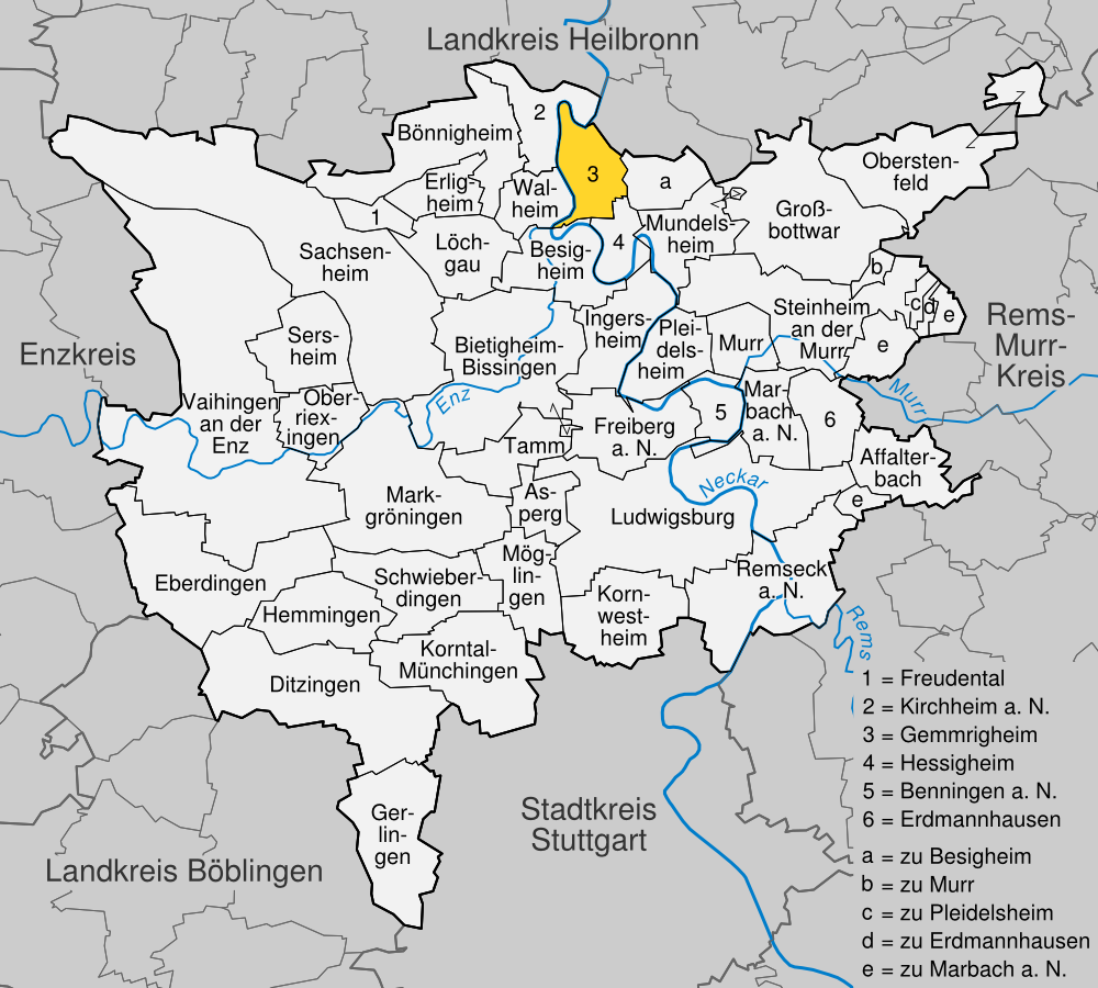 position of Gemmrigheim within distict of Ludwigsburg, Baden-Württemberg, Germany